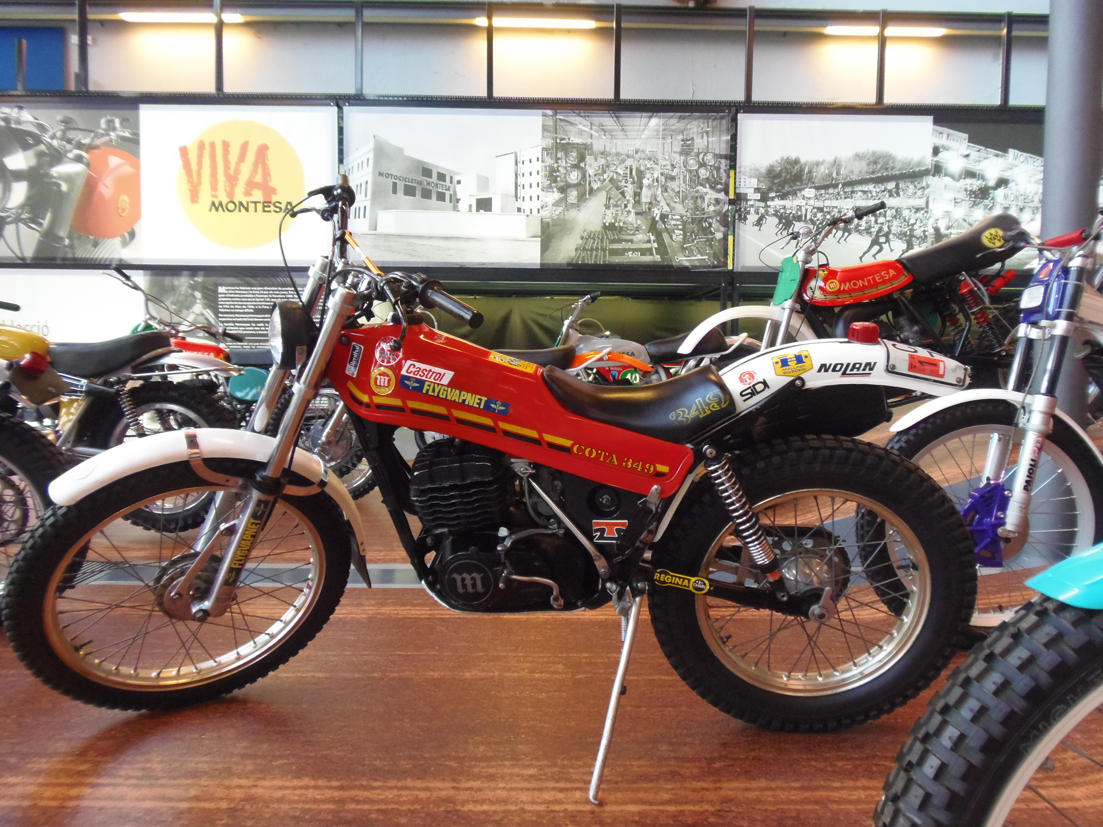 Ulf Karlson's 1980 Montesa Cota 349. Karlson won the 1980 World Championship on this bike